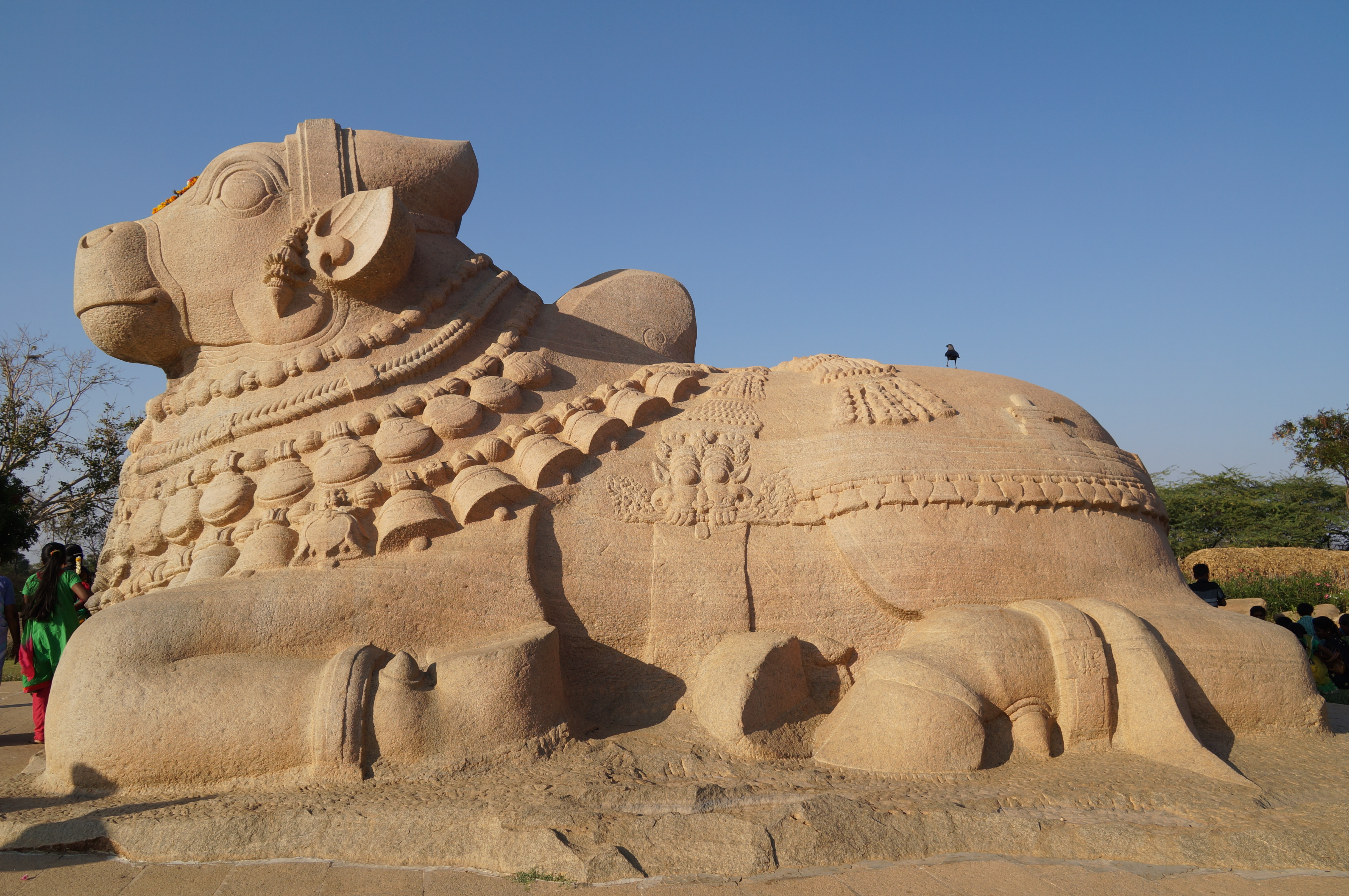 Lepakshi Nandi